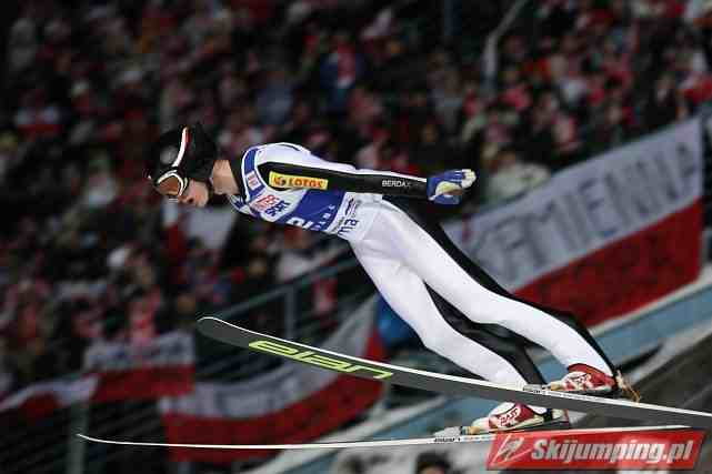 Tomasz Byrt during saturday competition of FIS Ski Jumping World Cup in Zakopane, 2011